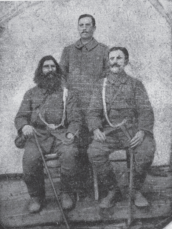 Portrait of bulgarian revolutionary Kuzo Dimitrov and fellowers